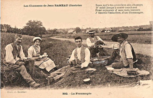 fromage fort, strong cheese based spread, popular with the working class due to low cost. image is a reference to the food, with a poem, as its of working class french having a picnic, where the author is connecting the image to the food. there is no obvious image of the food itself.